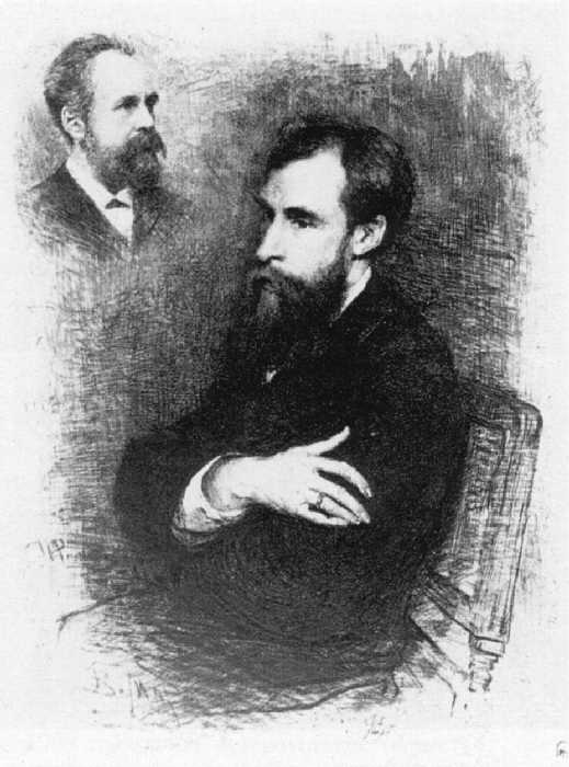 Pavel Tretyakov, etching made from a portrait by Ilya Repin